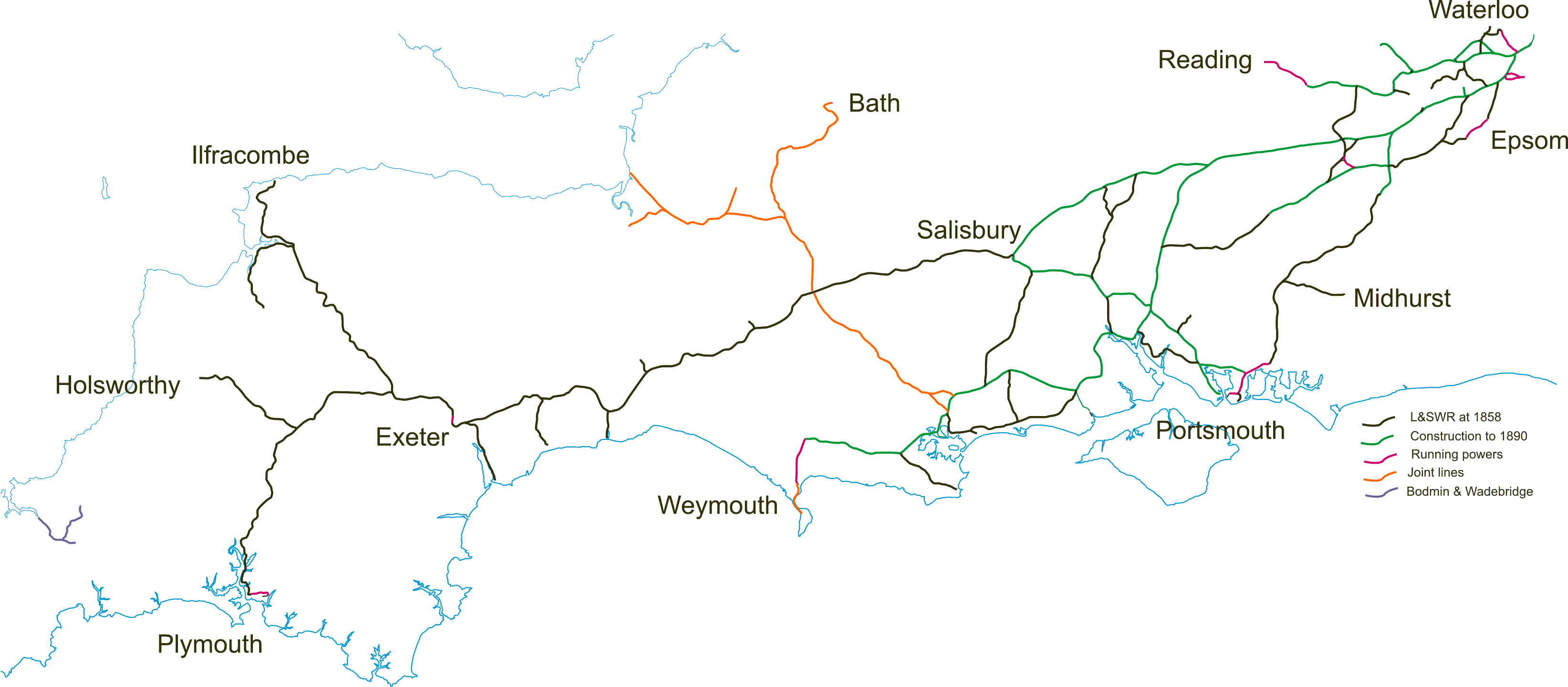 Map of L&SWR system at 1890